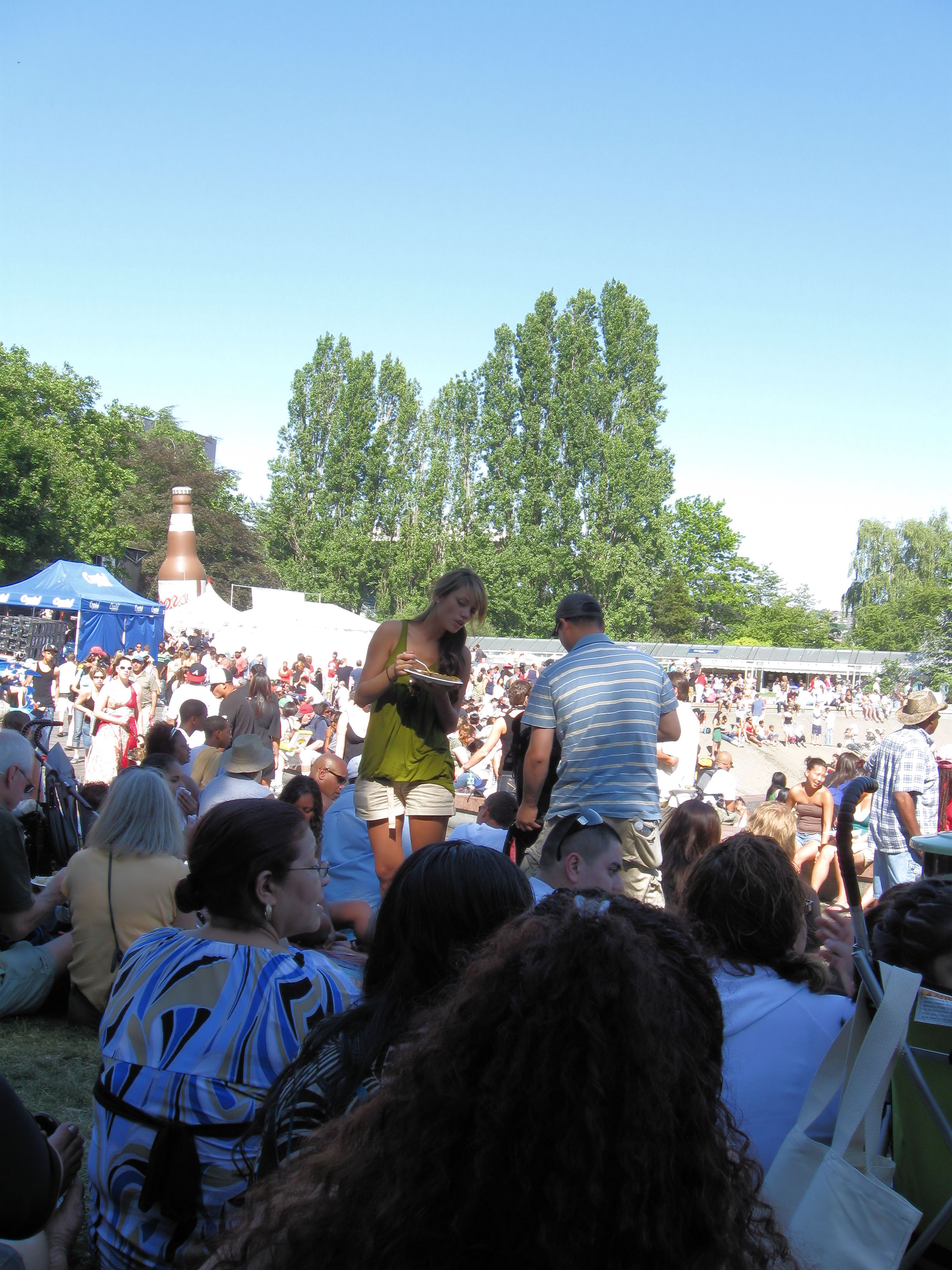 Crowd at Bite of Seattle, an annual food festival held over three days in July in Seattle, Washington, USA